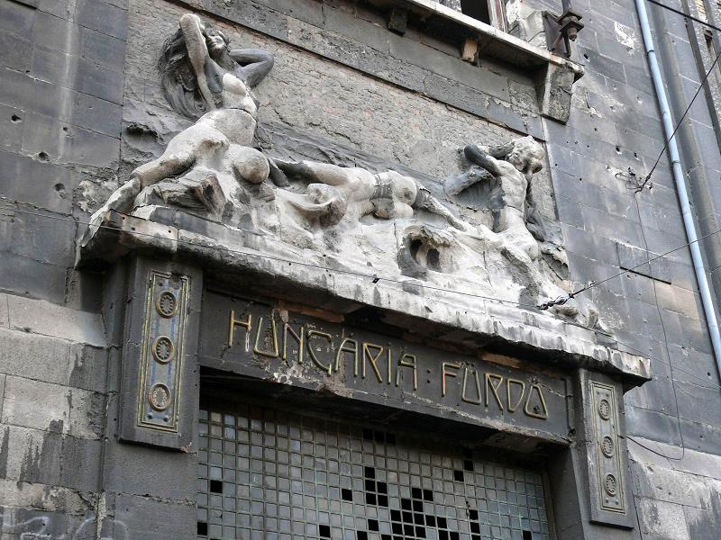 The facade of the Hungária Bath in Budapest